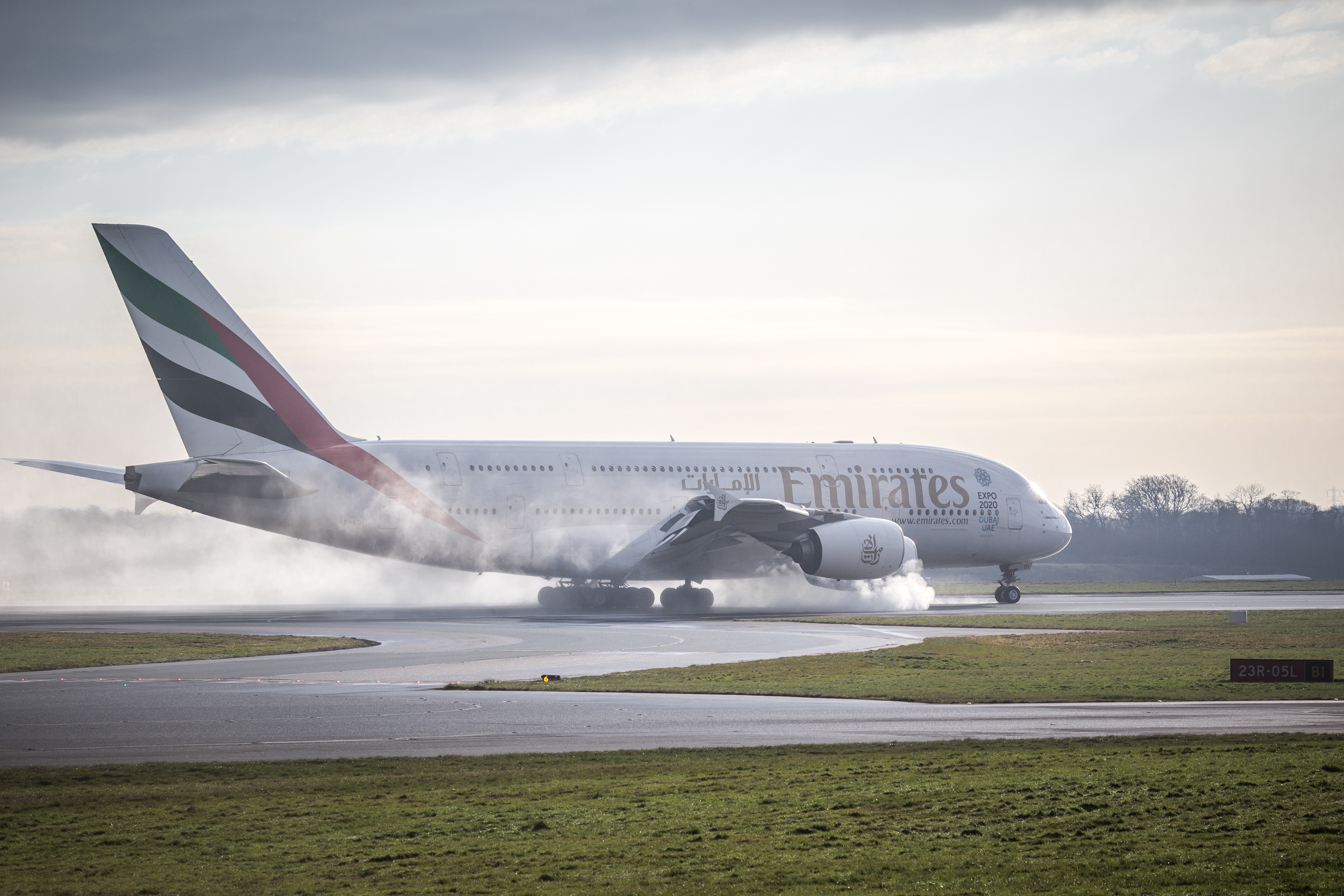 An Emirates A380 landing at Manchester Airport